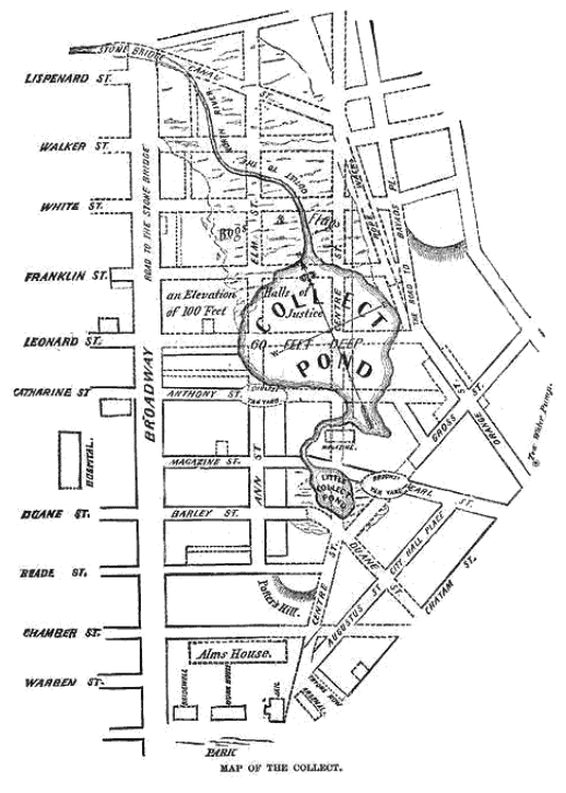 Collect Pond